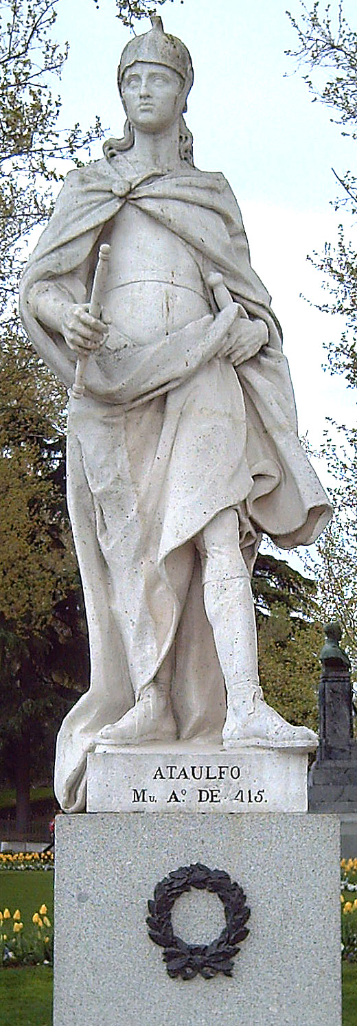 Statue of Ataulf († 415) at the Plaza de Oriente (square) in Madrid (Spain). Sculpted in white stone by Felipe de Castro (1711–1775) between 1750 and 1753.